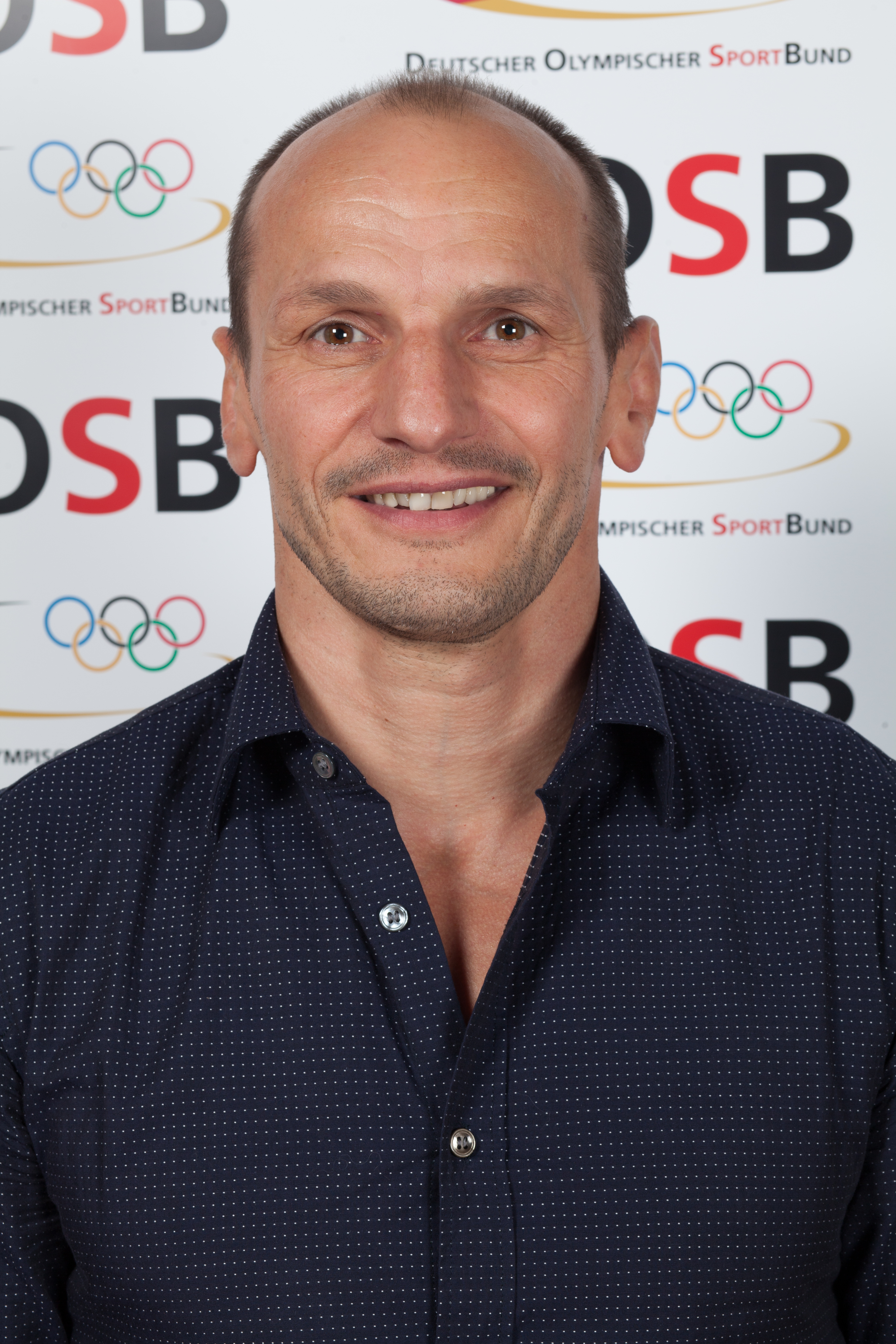 Bundestrainer-Konferenz des DOSBam 6. November 2012 in Leipzig Marcus Cyron Olaf Kosinsky Madonius Steschke Dieses Foto entstand aufgrund einer Zusammenarbeit mit dem DOSB. Personality rights warningAlthough this work is freely licensed or in the public domain, the person(s) shown may have rights that legally restrict certain re-uses unless those depicted consent to such uses. In these cases, a model release or other evidence of consent could protect you from infringement claims.